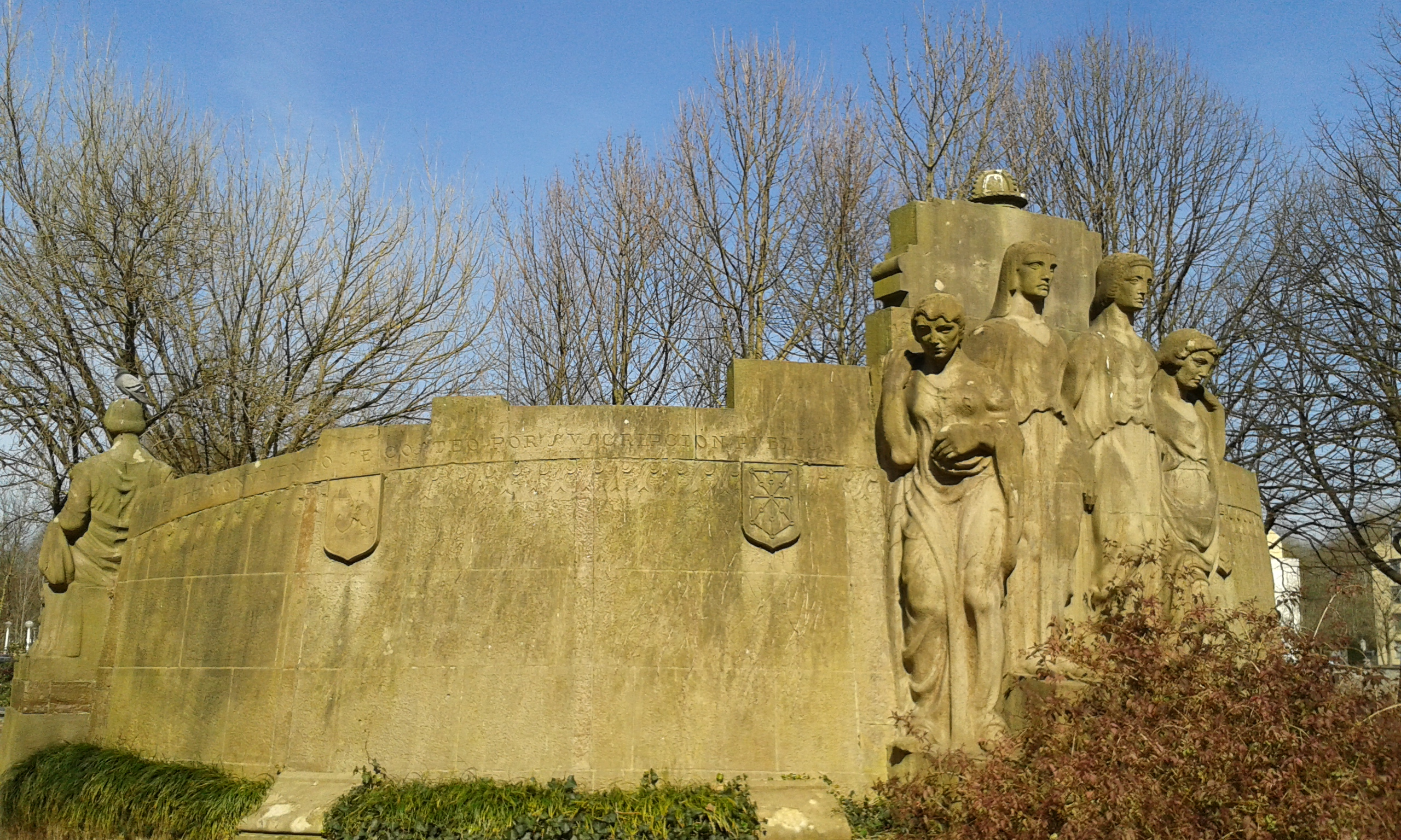 Monument to the "Four Sisters" (Southern Basque Country) in San Sebastián, Basque Country of Spain